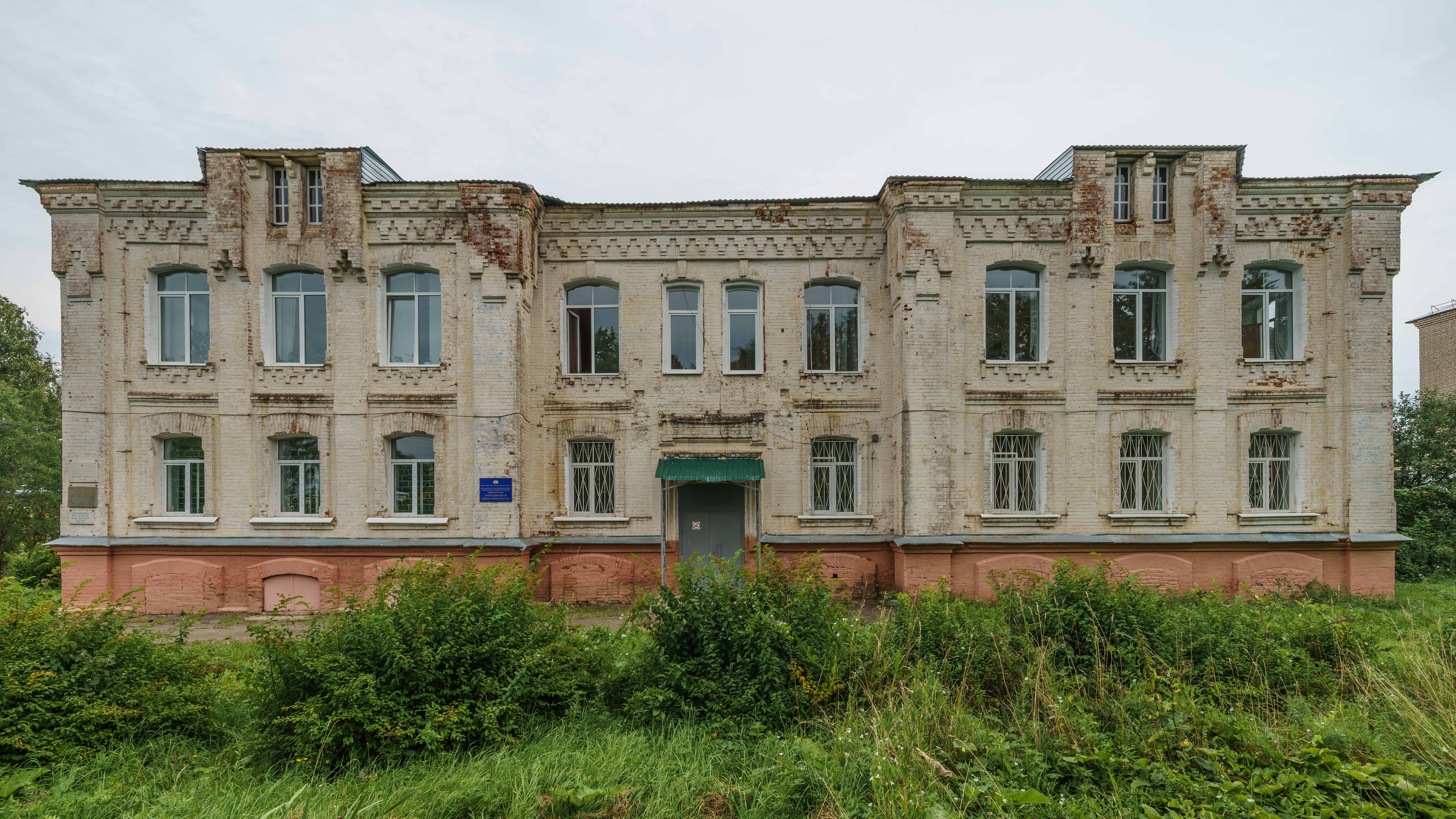 Former seminary in Khrenovo, Ivanovo Oblast, Russia.